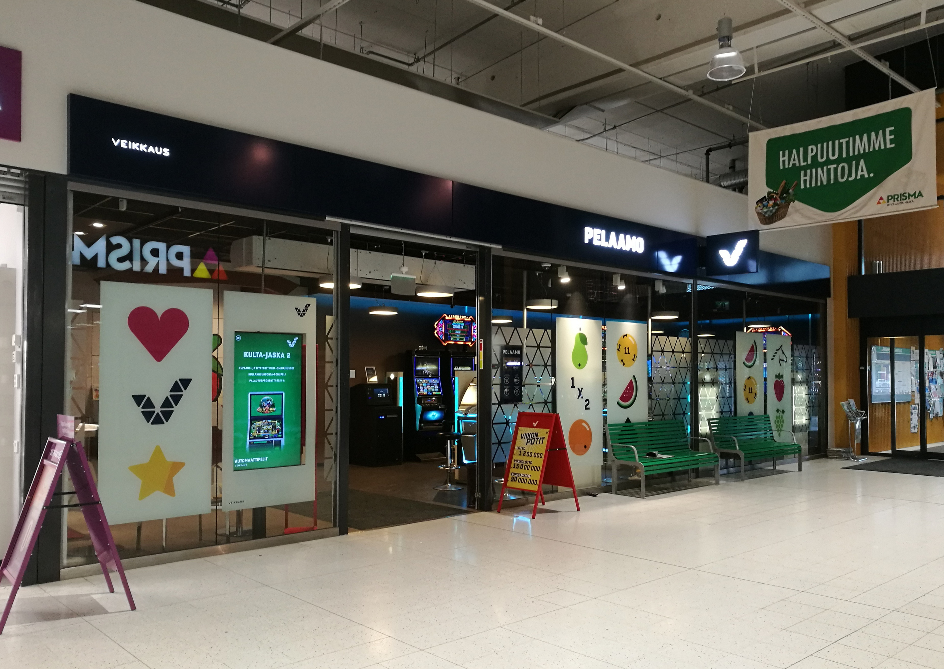 A gambling venue inside the Prisma supermarket in Limingantulli, Oulu.